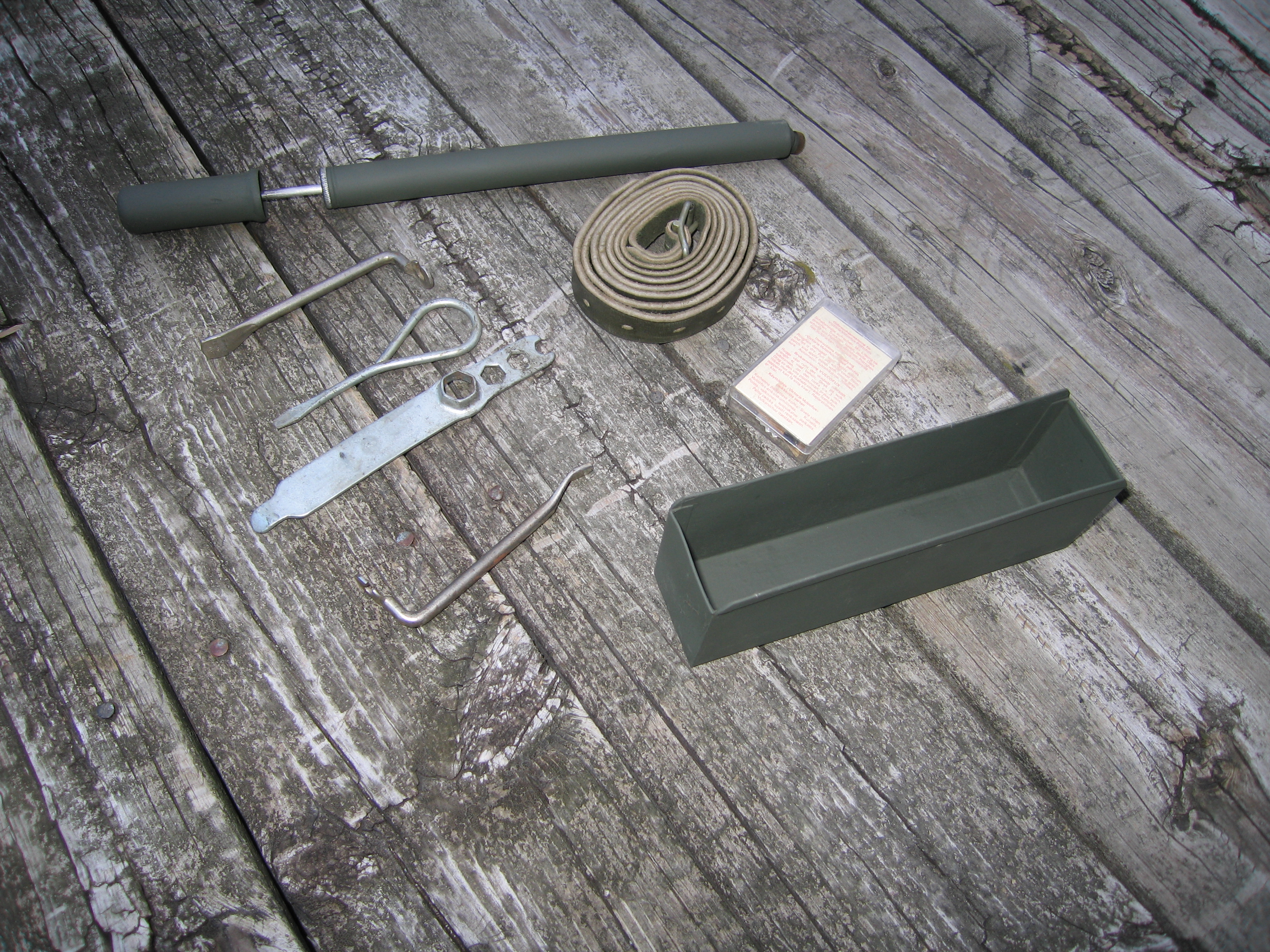 These are the tools and accessories issued to the m/42.